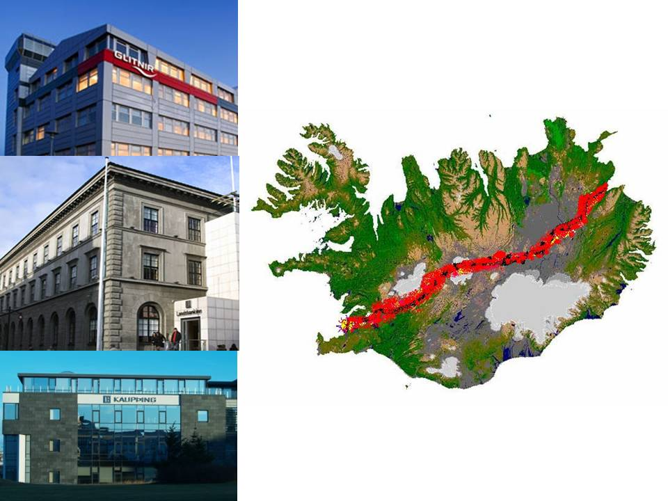 Photo montage